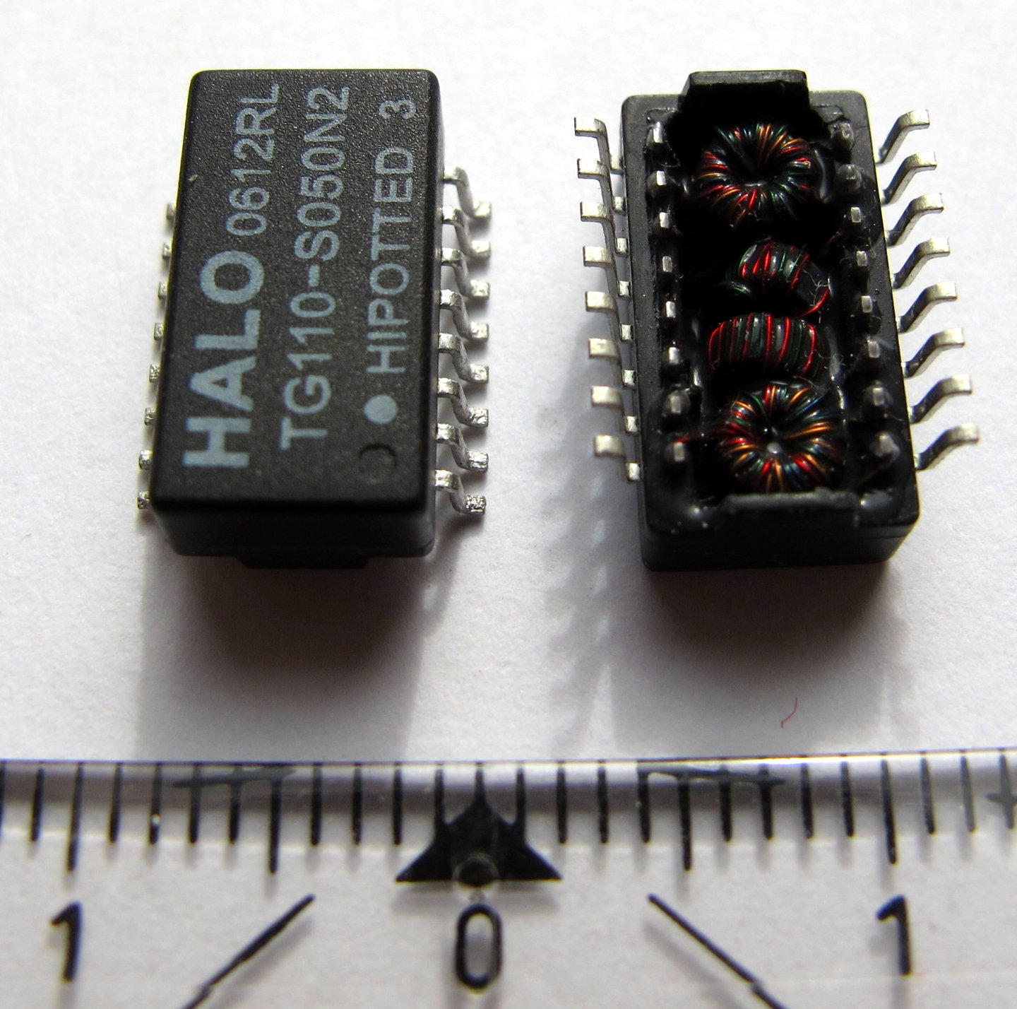 SMD-transfomers for the ethernet interface. Component top (left) and bottom (right)